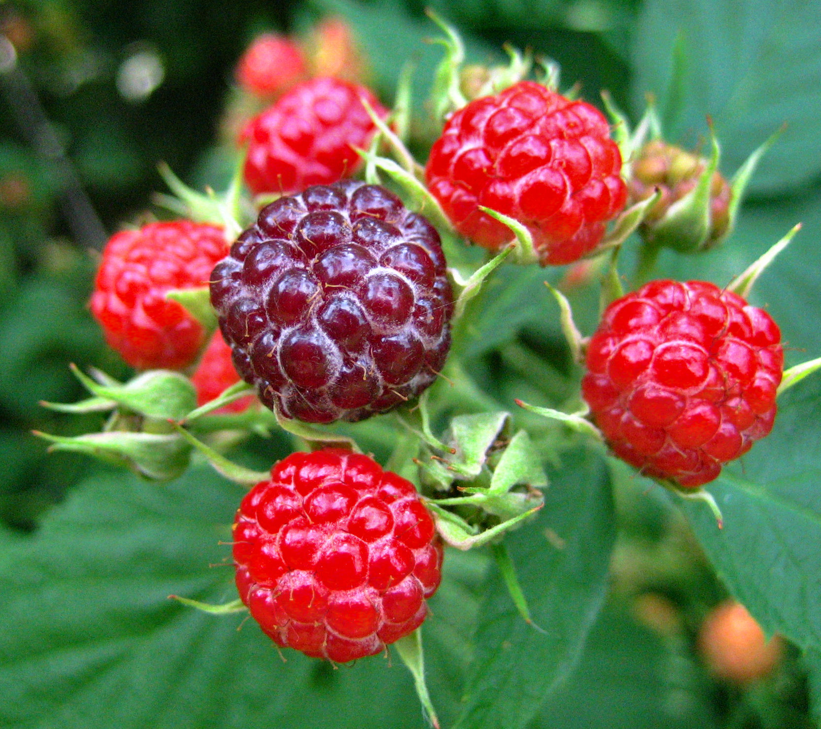 Bunch of wild raspberries (Rubus idaeus).